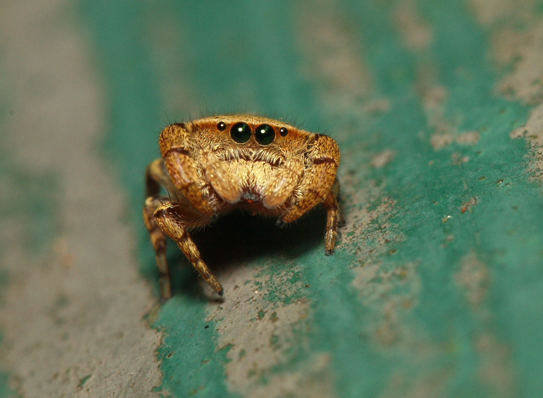 female Rhene flavigera from Lantau, Hong Kong.